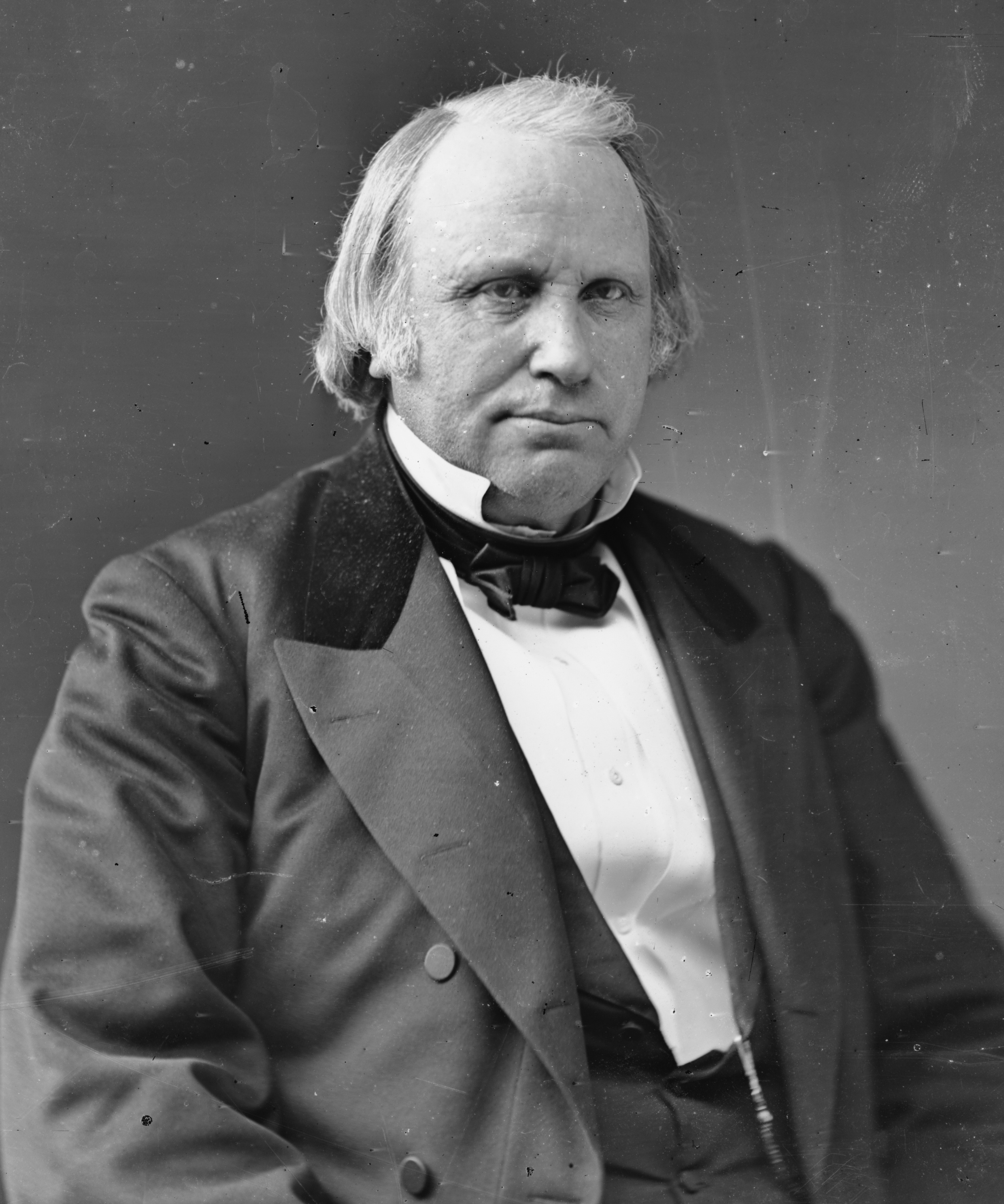 Henry Wilson, Vice President of the United States